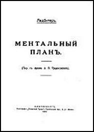 Leadbeater's Book Mentalnyi plan. Title page of the Russian edition.